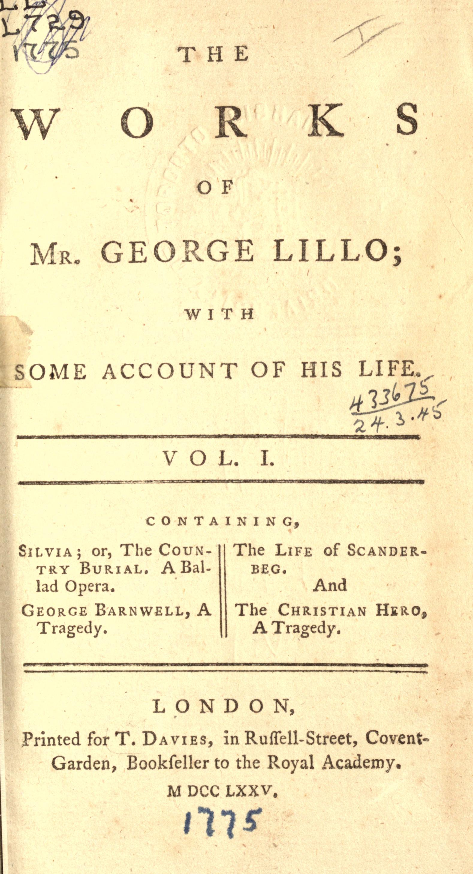 This is the contents page of The Works of Mr. George Lillo, with Some Account of His Life. It was published in 1775 by London, T. Davies and has no copyright.